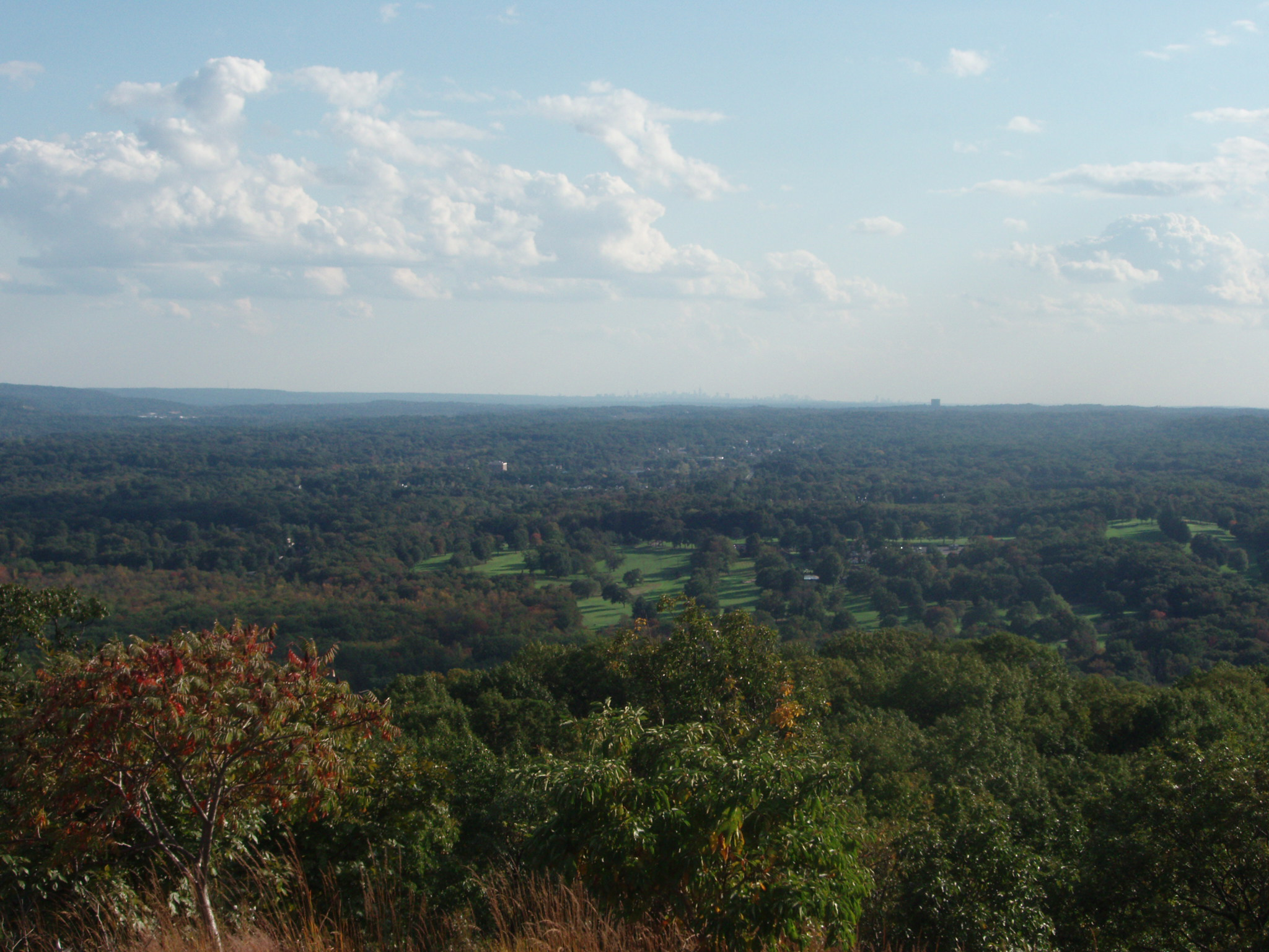 Views over Town of Clarkstown, Rockland County, NY.